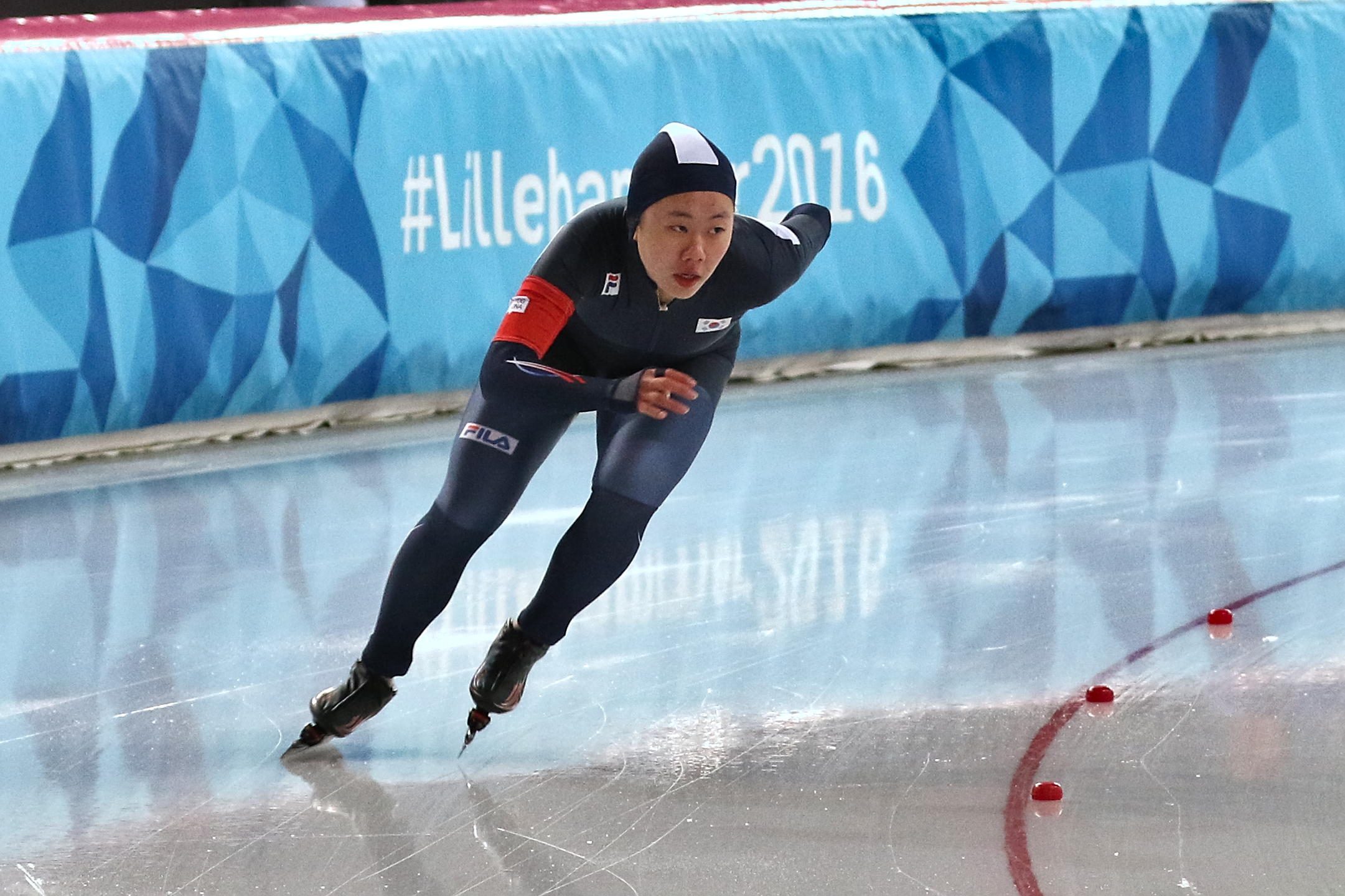 Lillehammer 2016 - Speed skating Ladies' 500m race 1 - Ji Woo Park